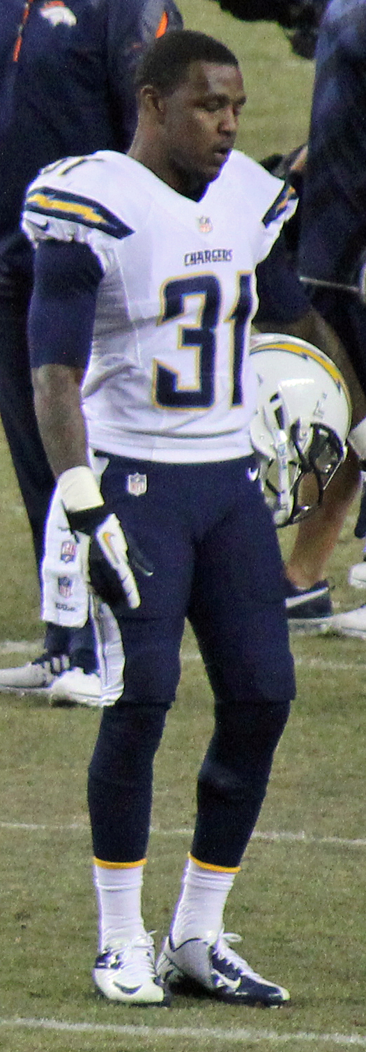 Richard Marshall, a player on the National Football League.